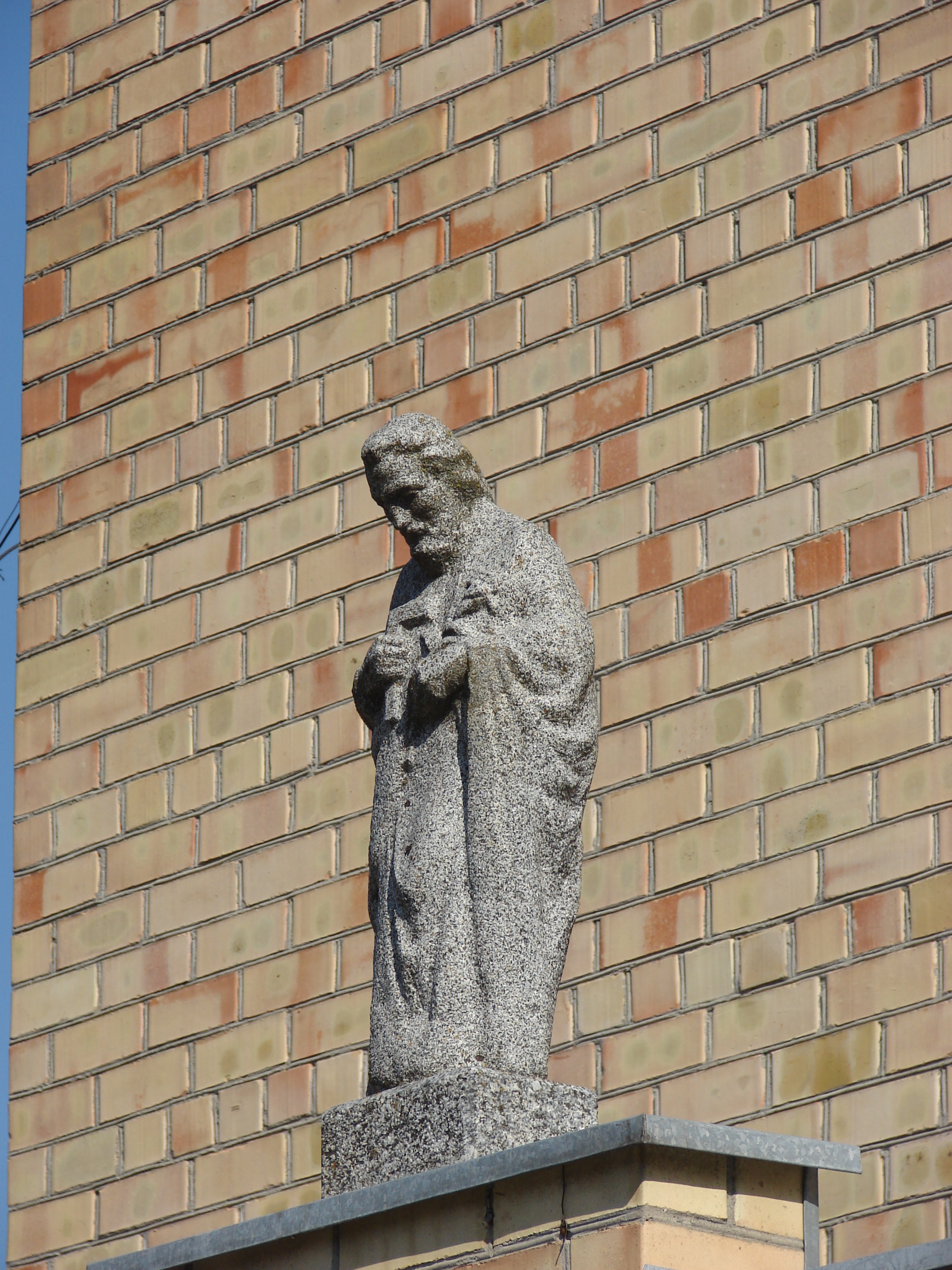 Detail of Saint Joseph Roman Catholic Church in Riga